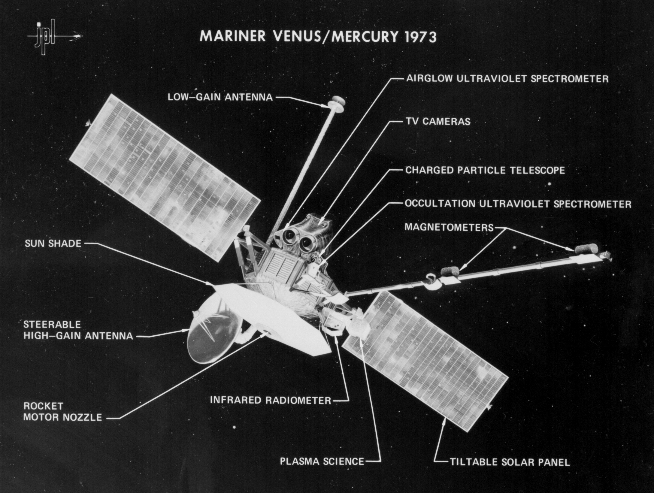 Mariner 10 Diagram On November 3, 1973, the Mariner Venus/Mercury 1973 spacecraft - also known as Mariner 10 - was launched from Kennedy Space Center. It was the first spacecraft designed to use gravity assist. Three months after launch it flew by Venus, changed speed and trajectory, then crossed Mercury's orbit in March 1974. This photo identifies various parts of the spacecraft and the science instruments, which were used to study the atmospheric, surface, and physical characteristics of Venus and Mercury. This was the sixth in the series of Mariner spacecraft that explored the inner planets beginning in 1962.